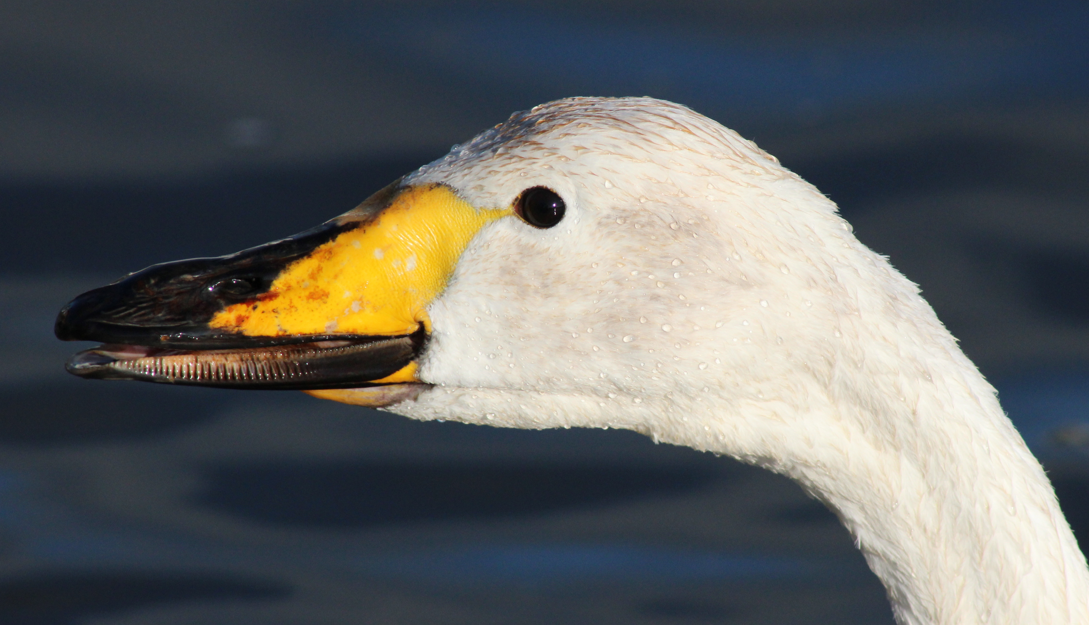 A Whooper Swan (Cygnus cygnus) at the Tjörnin lake in the central Reykjavík.